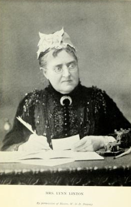 Photograph of Eliza Lynn Linton (1822-1898)